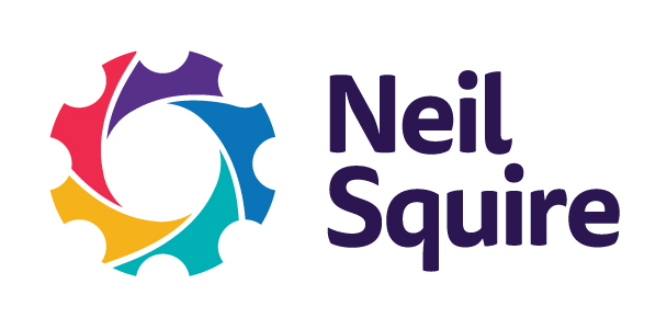 New Neil Squire logo as of October 1st, 2019